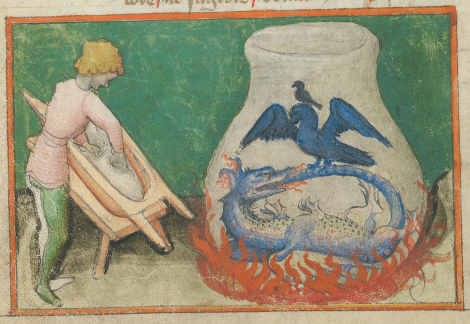 Aurora Consurgens medieval manuscript, exemplar from Zürich Zentralbibliothek, Ms. Rh. 172 Parchemin, 100 ff., 20.4 x 13.9 cm, Saint Gall, XVe siècle, latin 10.5076/e-codices-zbz-Ms-Rh-0172 Downloaded from the above site, cropped by GAllegre folio 21 verso - 44